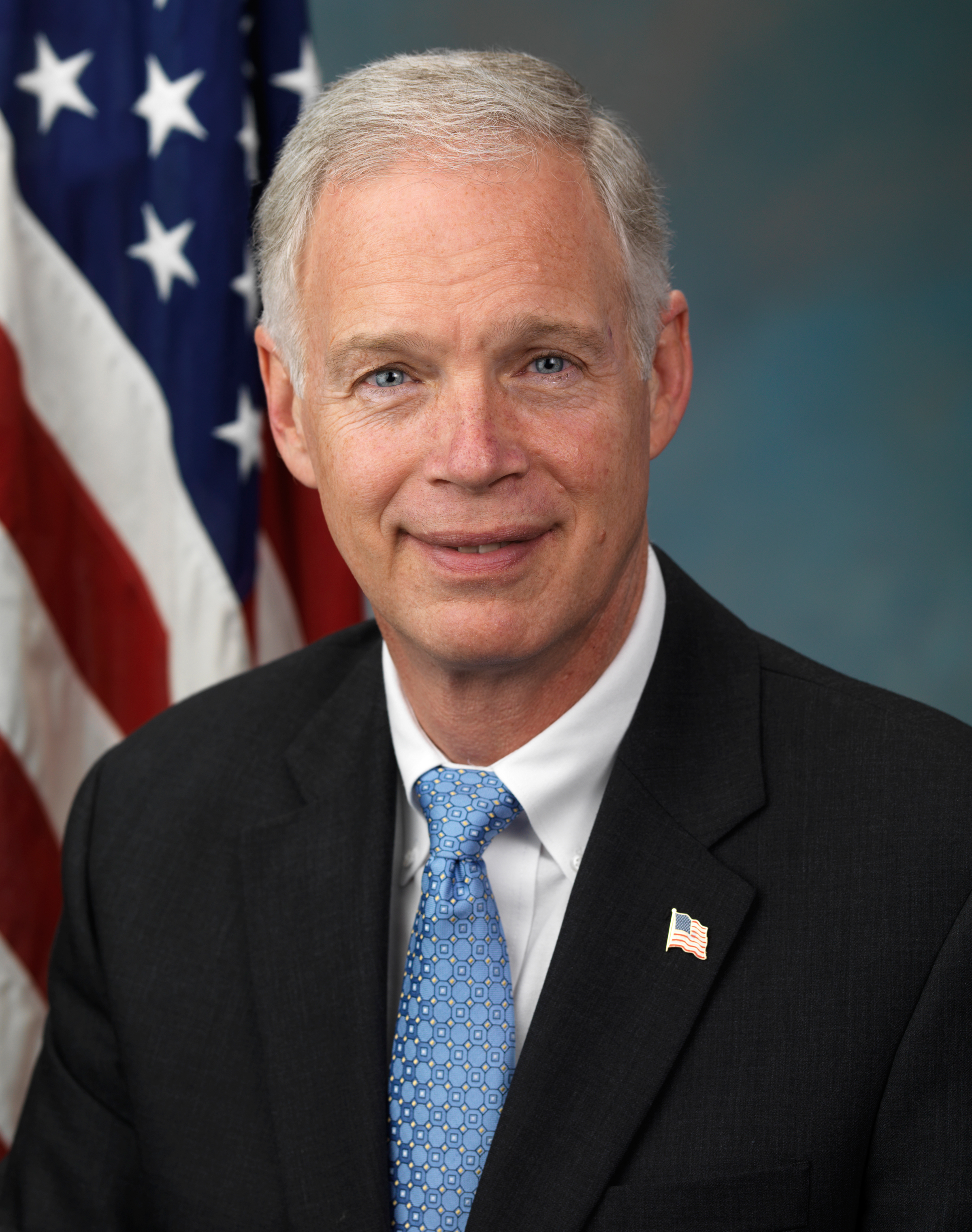 Official photo of Senator Ron Johnson (R-WI).